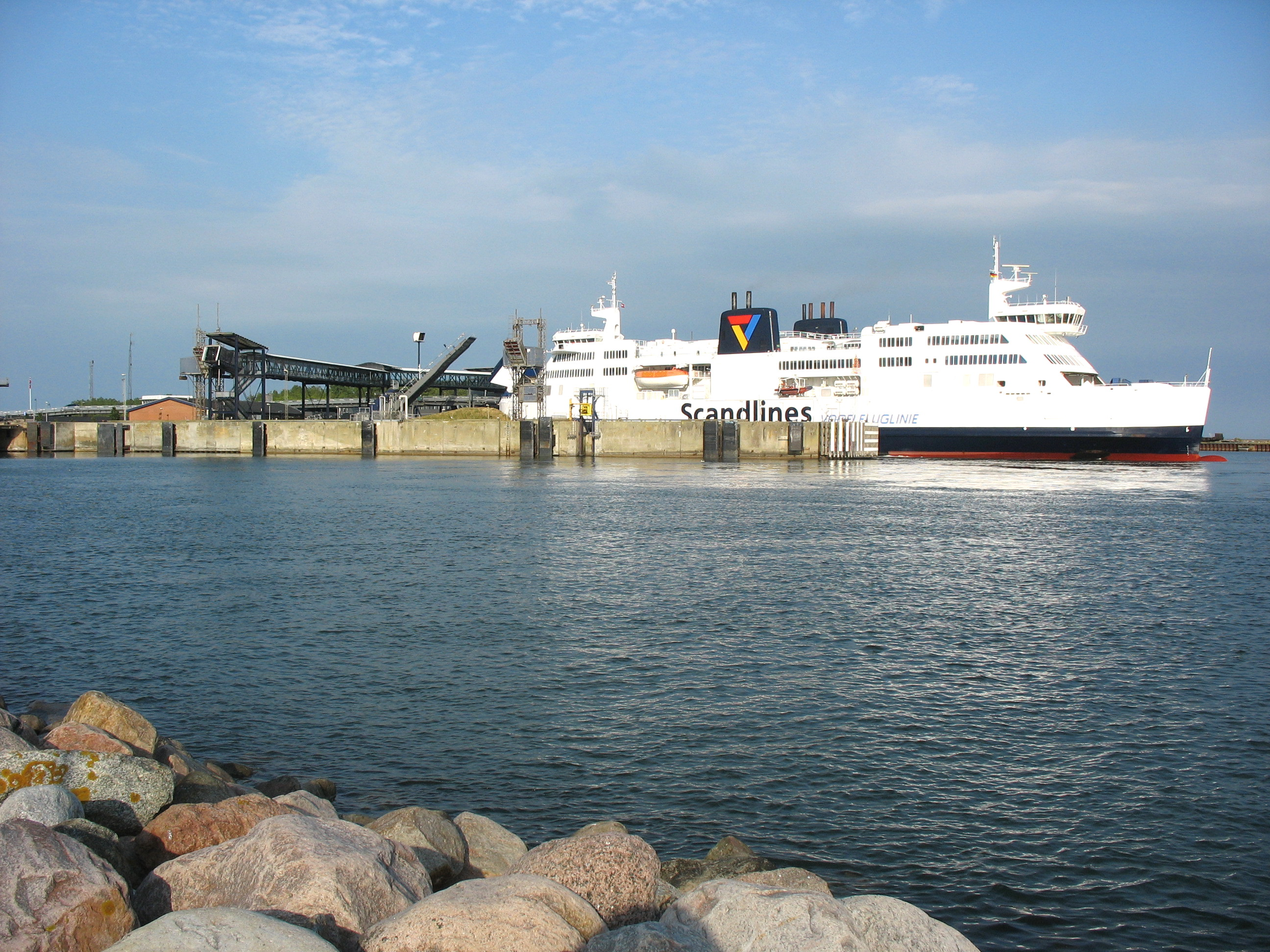 The ferry habour in the small town "Rødbyhavn" located on the island Lolland in east Denmark.